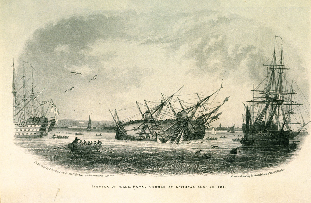 Sinking of H.M.S. Royal George at Spithead Augt 29 1782; etching; no date